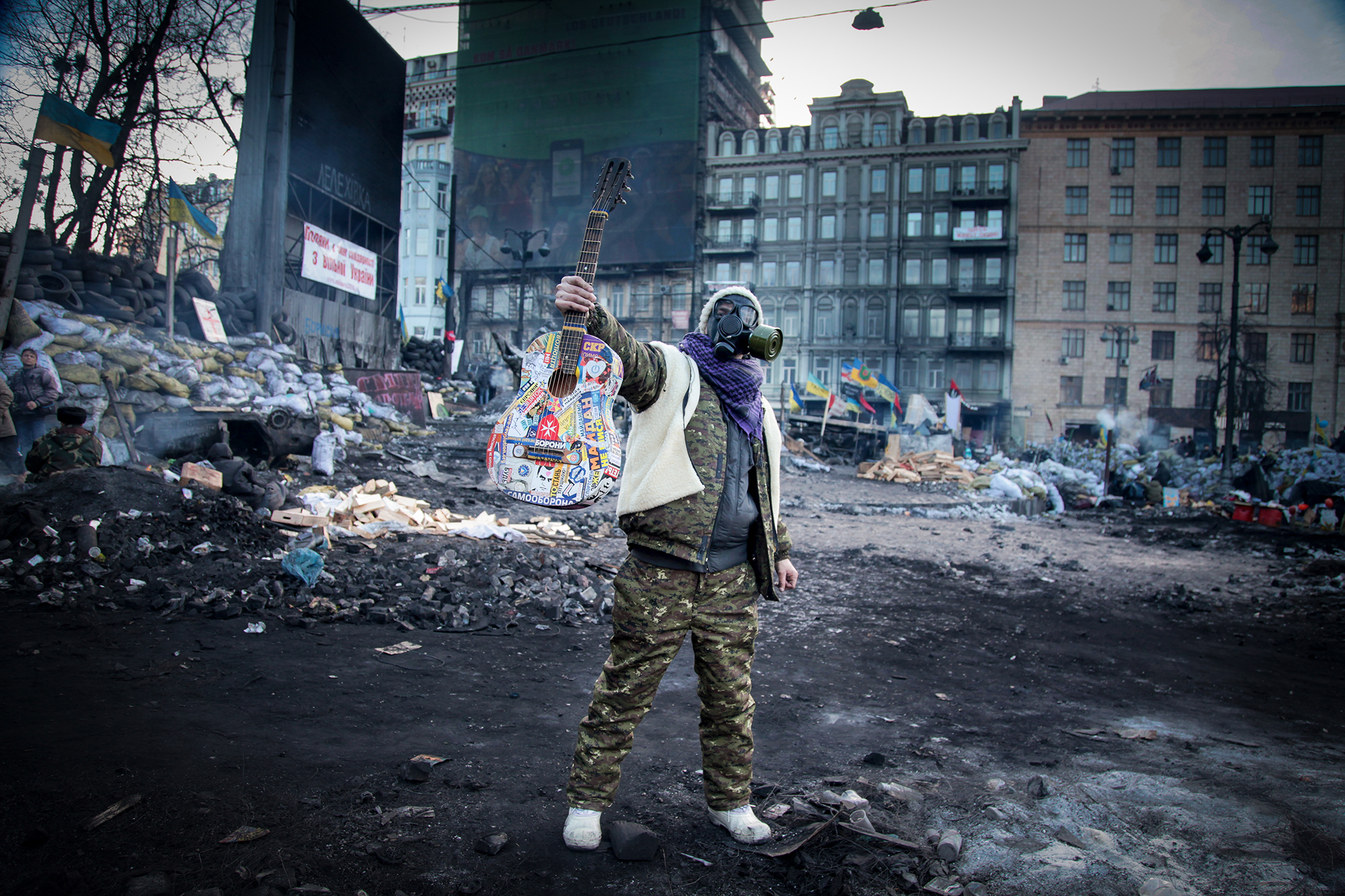 Author image- Iana Zholud